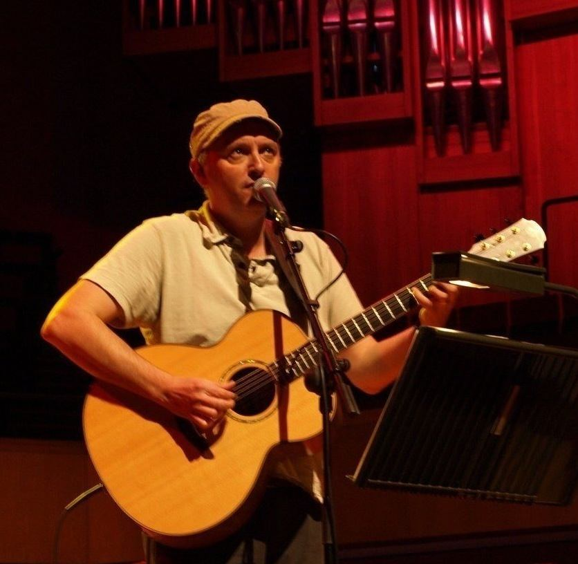 Stuart Townend, from the In Christ Alone UK tour.